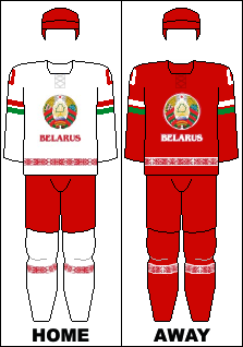 The home and away jerseys of the Belarussian national ice hockey team used from the 2014 IIHF World Championship.